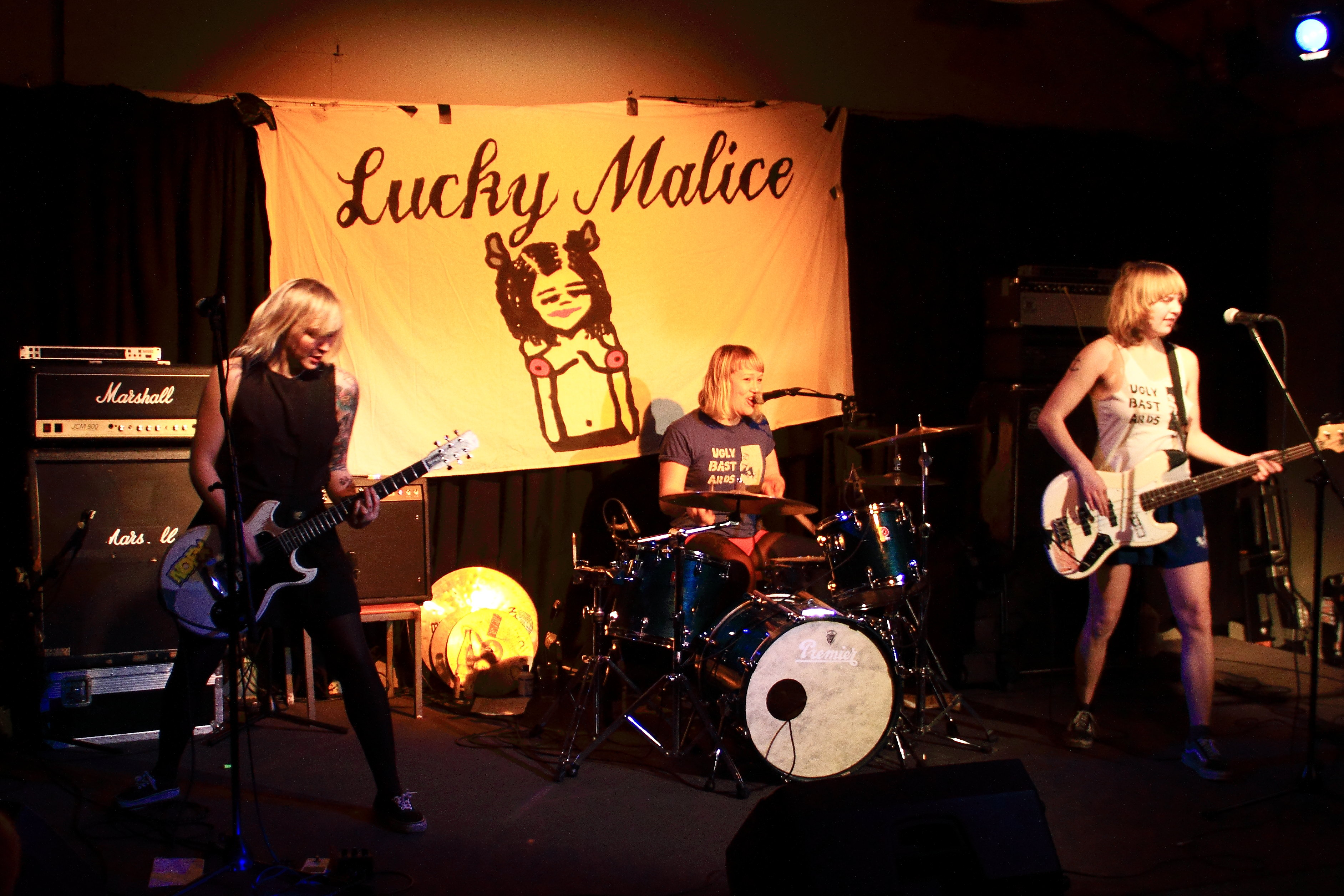 The Riot Grrrls Lucky Malice from Norway at Club W71, Weikersheim.